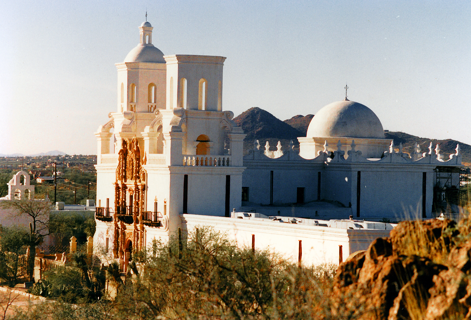 San Xavier Del Bac Mission, near Tucson, Arizona 1990